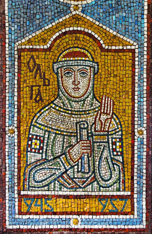 Mosaic of Olga of Kiev (r.945-962)